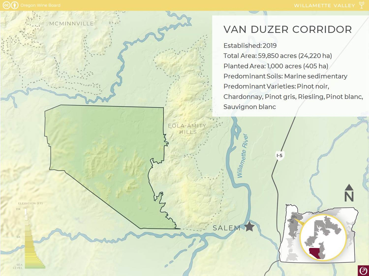 The Van Duzer Corridor AVA is contained within the Willamette Valley AV and is located approximately 50 miles (80 km) southwest of Portland and 40 miles (64 km) east of the Pacific Ocean. The AVA is named after the Van Duzer Corridor, a natural break in the Coast Range that results in 40-50% stronger winds in the afternoon compared to other Willamette Valley AVAs. Direct coastal wind exposure results in cooler average temperatures and higher grape skin-to-pulp ratios, producing wines with more phenolic structure, densely structured tannins, and firm acids. The Van Duzer Corridor is comprised primarily of marine sedimentary soil. The region’s trademark afternoon winds combined with these soils result in Pinot noirs offering notes of dark fruits, tea leaf, and earth. White wines tend to have bright fruit and acid-driven profiles complimented by weight and texture.